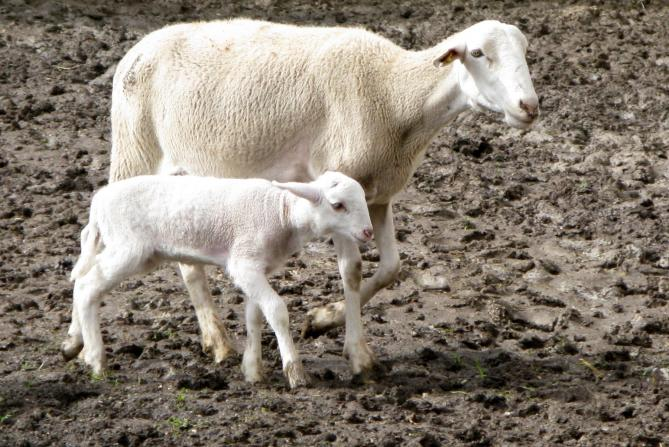 segurenya sheep